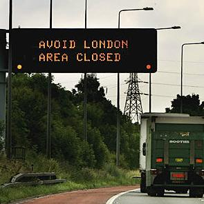 A motorway sign on the M6 heading into London on 7th July 2005. Avoid London. Area Closed: A motorway sign on the M6 heading into London on 7th July 2005. Of all the photos I could have posted for the events today this one seemed the most powerful. License on Flickr (2010-12-28): CC-BY-SA-2.0 Flickr tags: london, terrorist, attack, 07/07/05, london bombing, terror, road, matrix sign